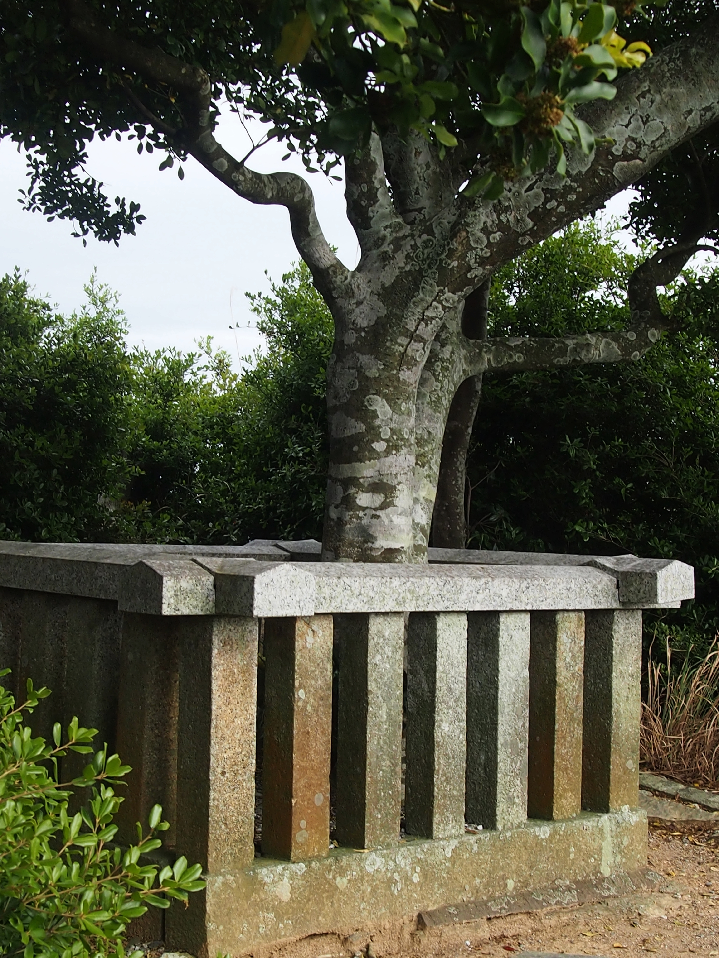 Grave of Yoshitaka Kuki in Toshi-jima iland in Toba city Mie Prf. Japan